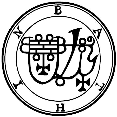 Bathin seal, THE BOOK OF THE GOETIA OF SOLOMON THE KING (1904)